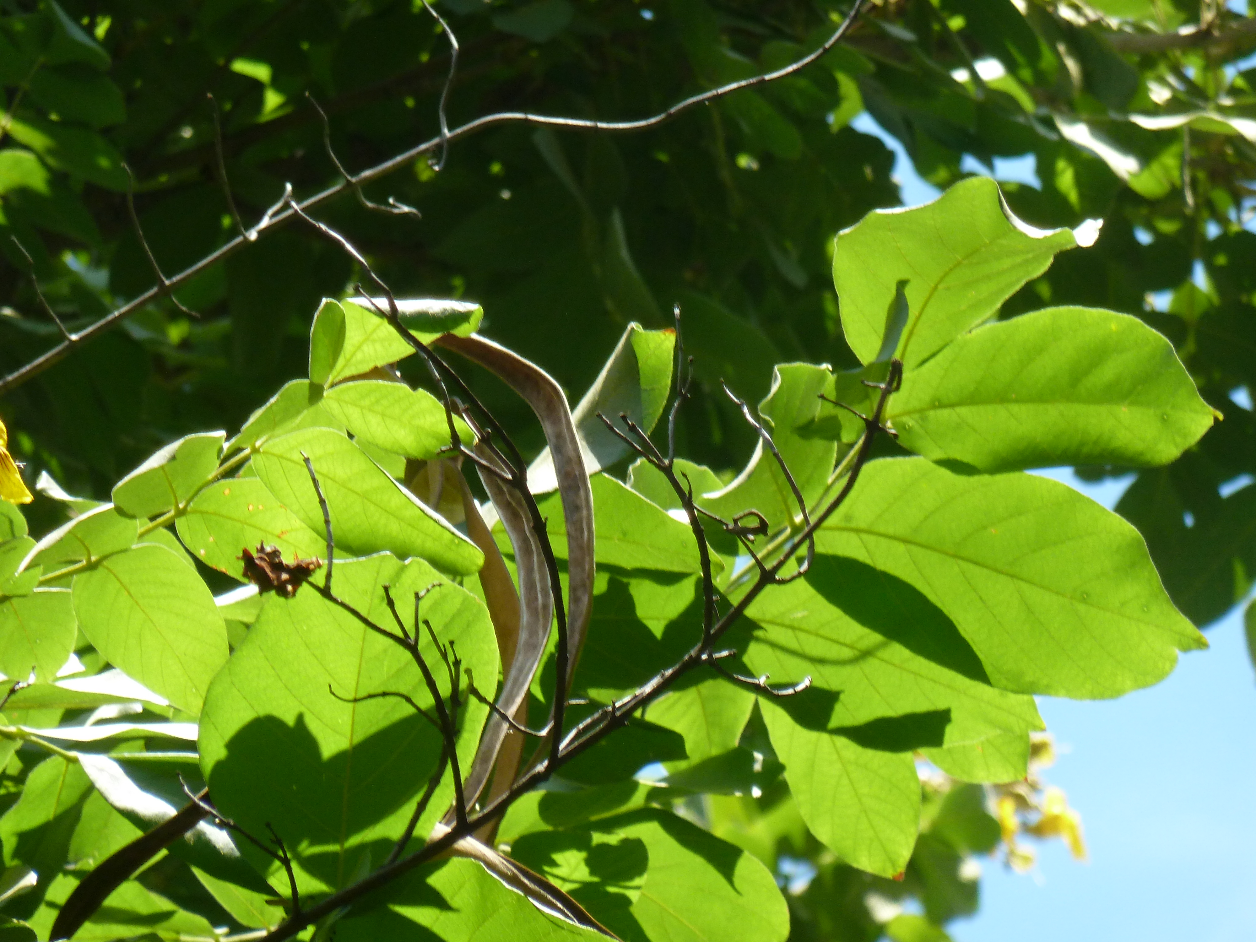 Open seed pods and foliage of a Golden bell-bean in the Manie van der Schijff Botanical Garden, University of Pretoria